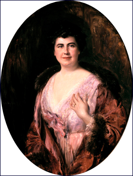 Edith Wilson, First Lady of the United States form 1915 to 1921 during the presidential tenure of her husband, President Woodrow Wilson